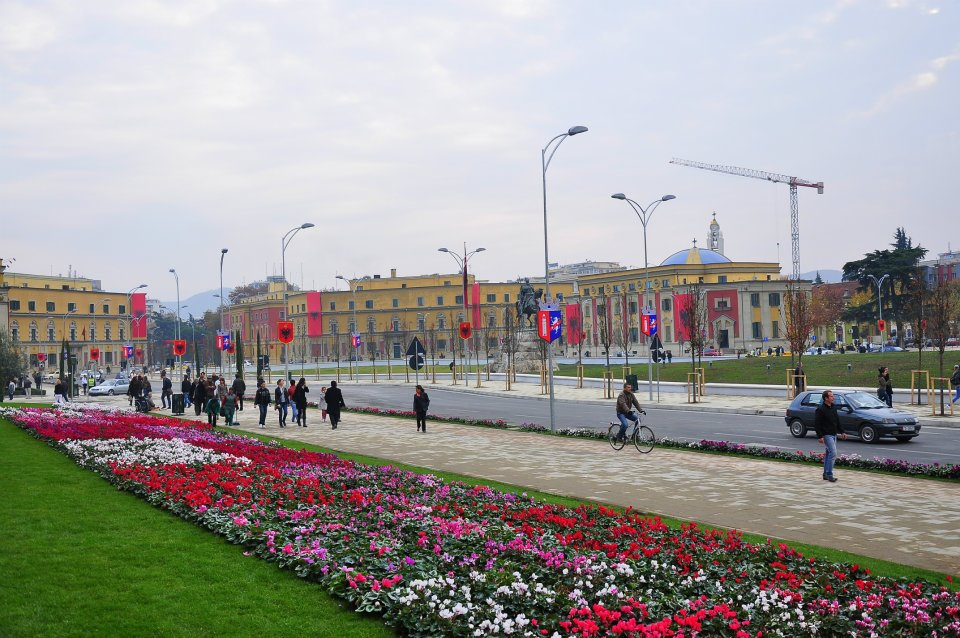 tirana place center